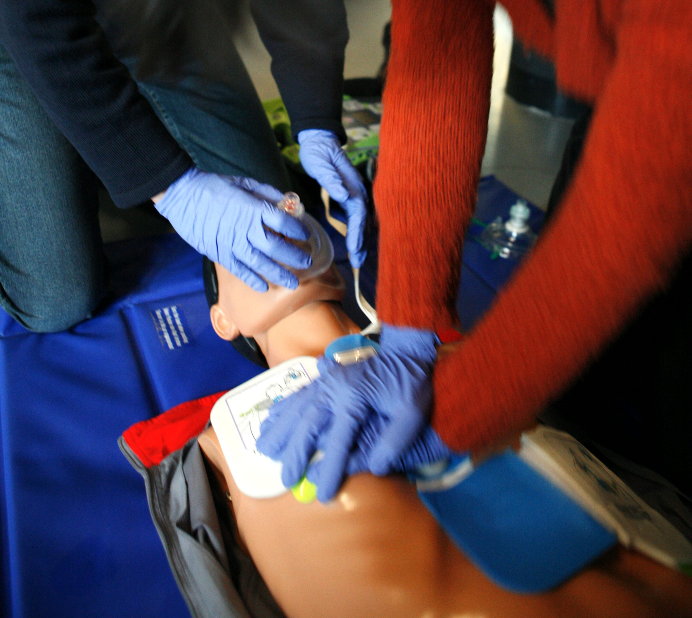 CPR training